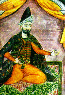 King Vakhtang VI of Kartli, early 18th century